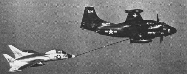 A North American AJ-2 Savage of the U.S. Navy composite squadron VC-7 Det. 1 Peacemakers of the Fleet refueling a Vought F7U-3 Cutlass of experimental squadron VX-3.